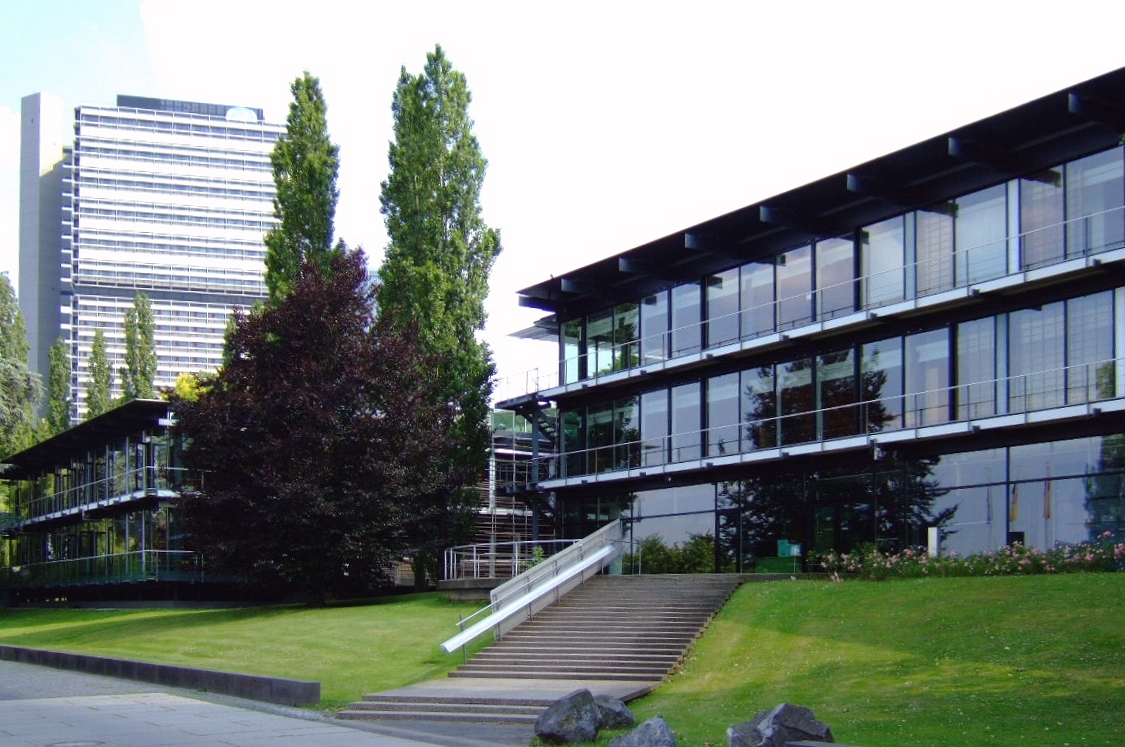 The river façade of the former Federal Parliament buildings in Bonn. Right: the building containing the new Bundestag chamber (1992-99). Left: the annex known as the Vice-Presidential building. Behind: the Langer Eugen tower, which housed MPs' offices (now part of the Bonn UN Campus).